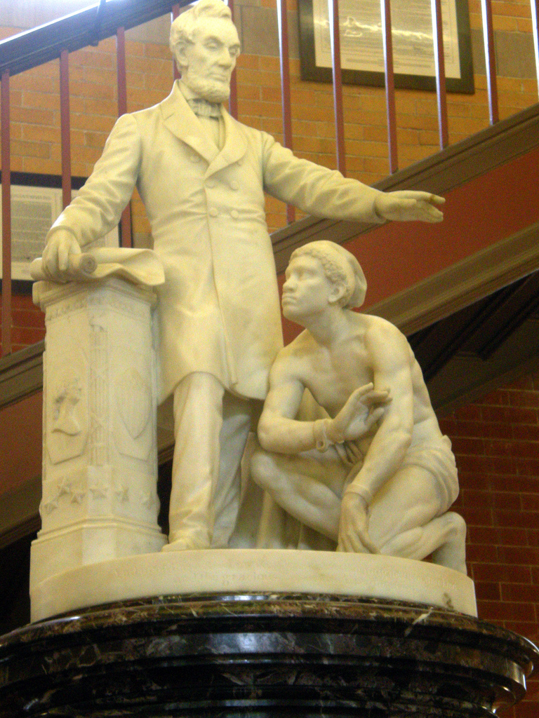 This is a small version of Thomas Ball 's Emancipation Memorial depicting Abraham Lincoln free a slave. It was purchased by Edward Francis Searles and brought to Methuen, where it was ensconced in the High School - which is now the Town Hall.